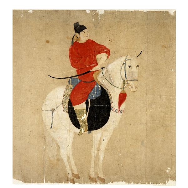 Qian Xuan. A nobleman. 1290. 29,7x75,6cm. British Museum, London